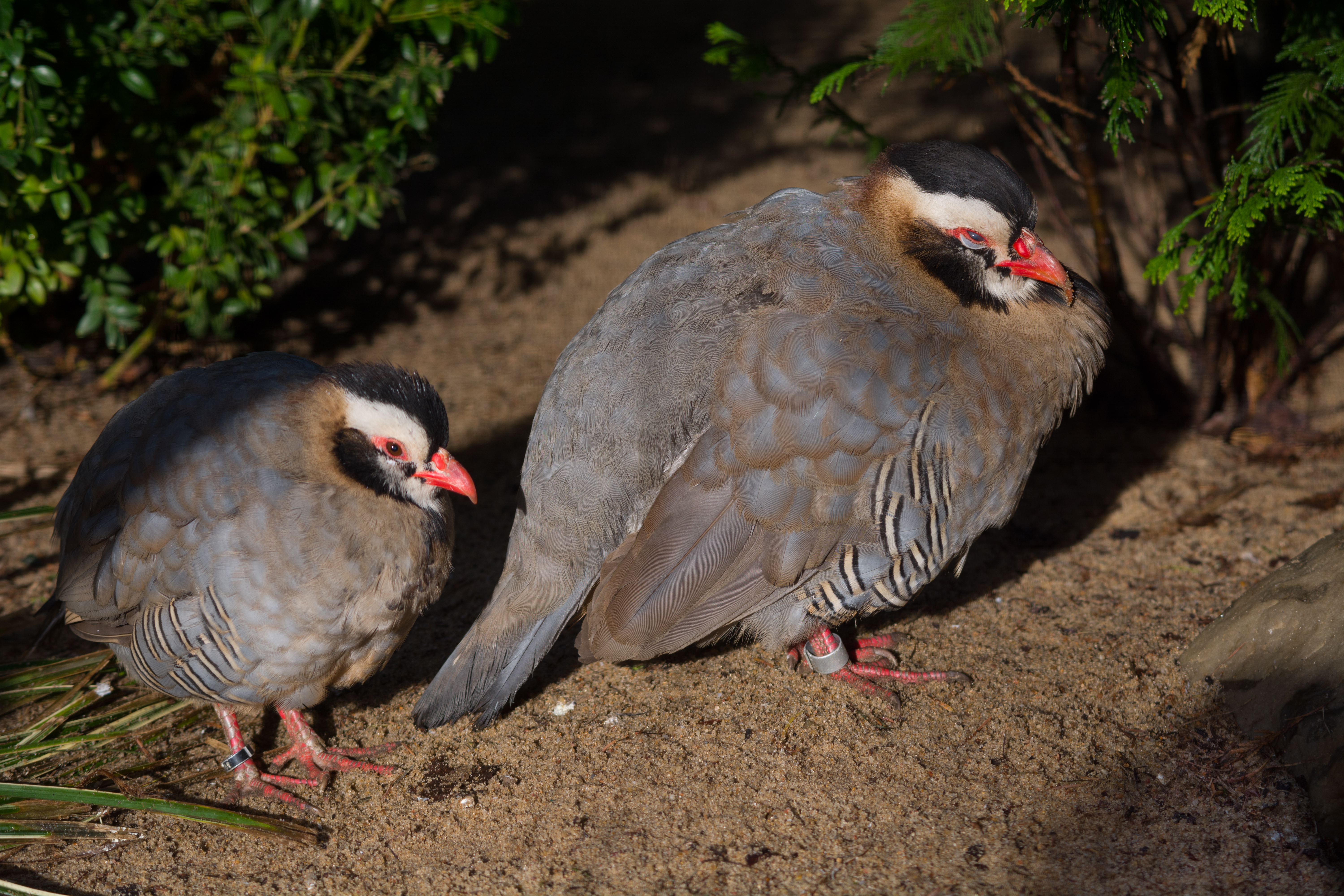 Arabian partridge(Alectoris melanocephala) in Weltvogelpark Walsrode